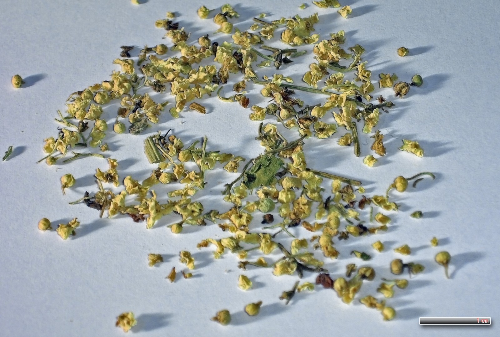 dried Sambucus nigra; Elder, Elderberry, Black Elder, European Elder, European Elderberry, European Black Elderberry, Common Elder, or Elder Bush, Flowers